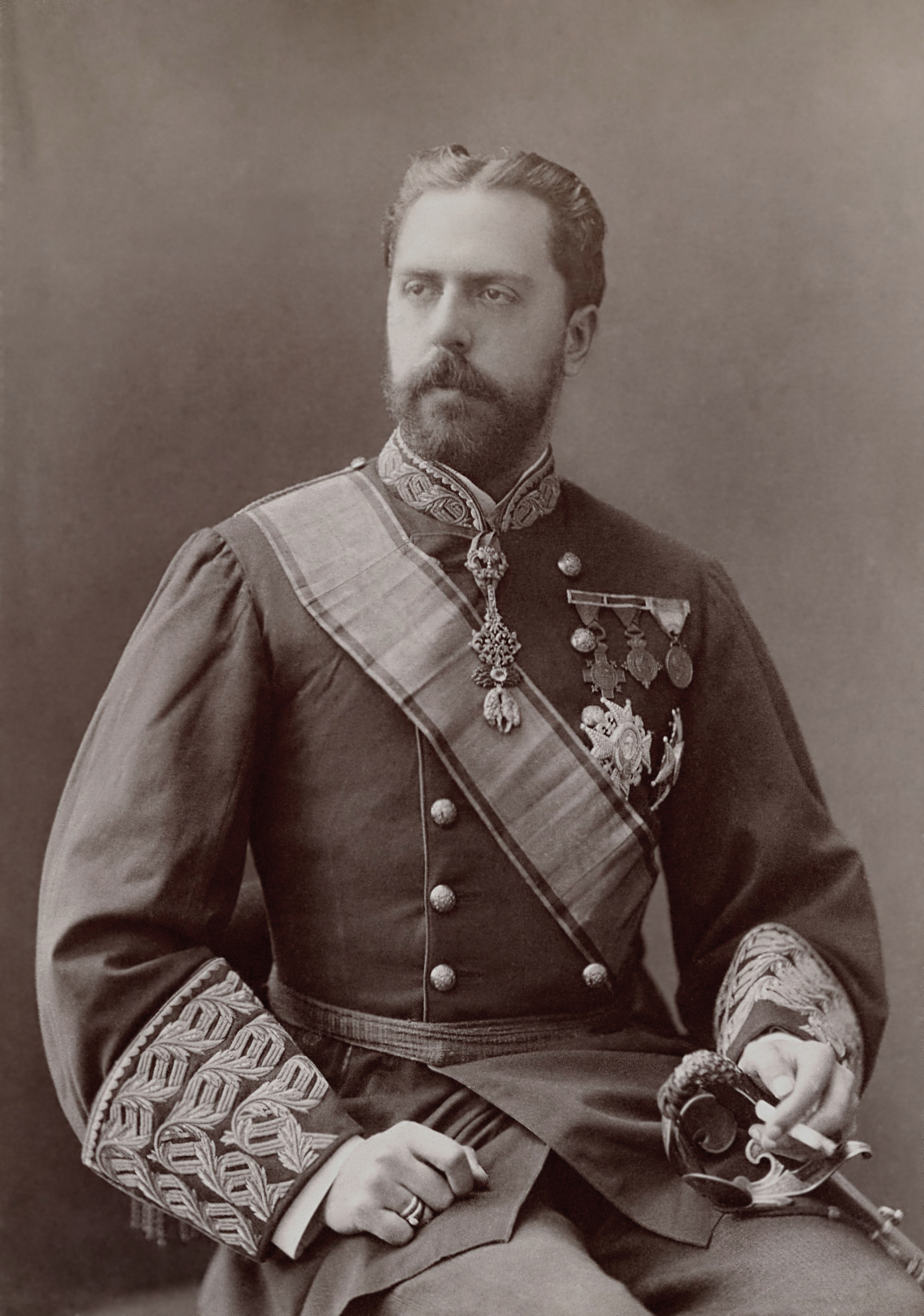 Carlos, Duke of Madrid (1848-1909) was the carlist claimant to the throne of Spain, and the legitimist claimant to the throne of France, as the elder heir of the Capetian dynasty. Did not succeed.